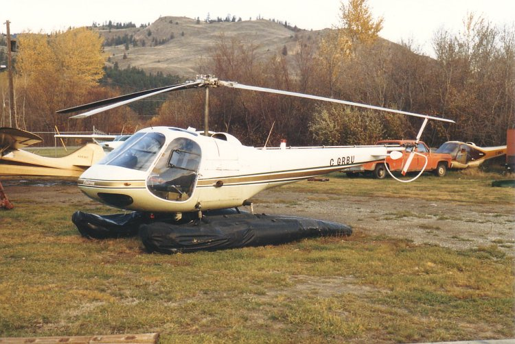 I took this photo of an Enstrom F-28C Shark C-GRBU on inflatable floats in Penticton BC in 1986.